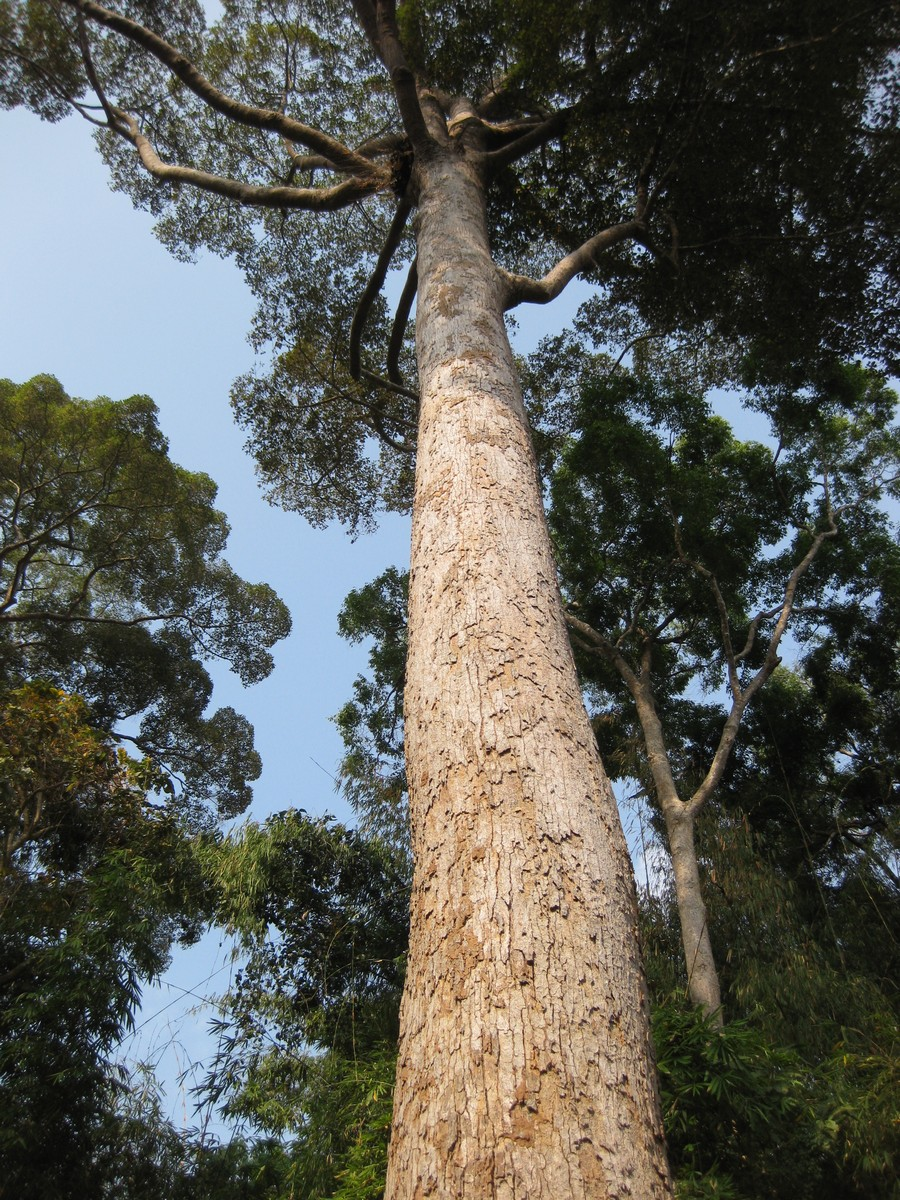 Photographed at the Queen Sirikit Botanic Garden (Chiang Mai Province, Thailand) in March